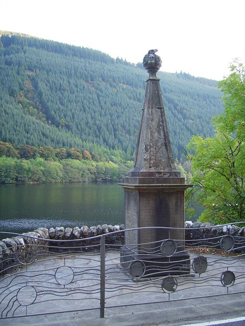 Tobar nan Ceann Monument celebrating a gruesome piece of clan history. The well, below the monument was apparently used to wash the heads of seven men killed in revenge for their part in the murder of two of the Keppoch MacDonalds as part of a power struggle Keppoch_murders